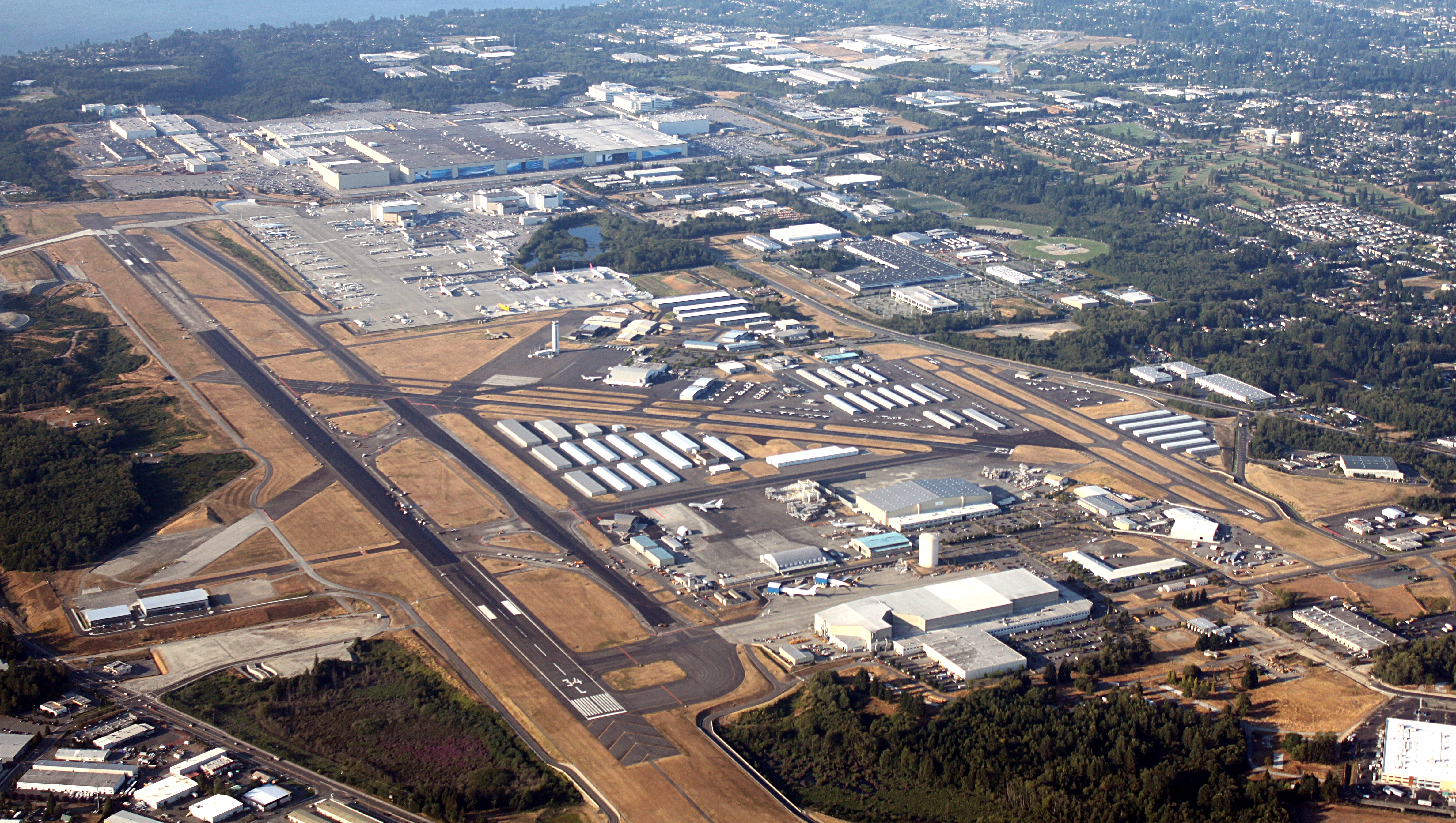 An aerial view of Everett's Paine Field, Everett, Washington, looking to the northeast.